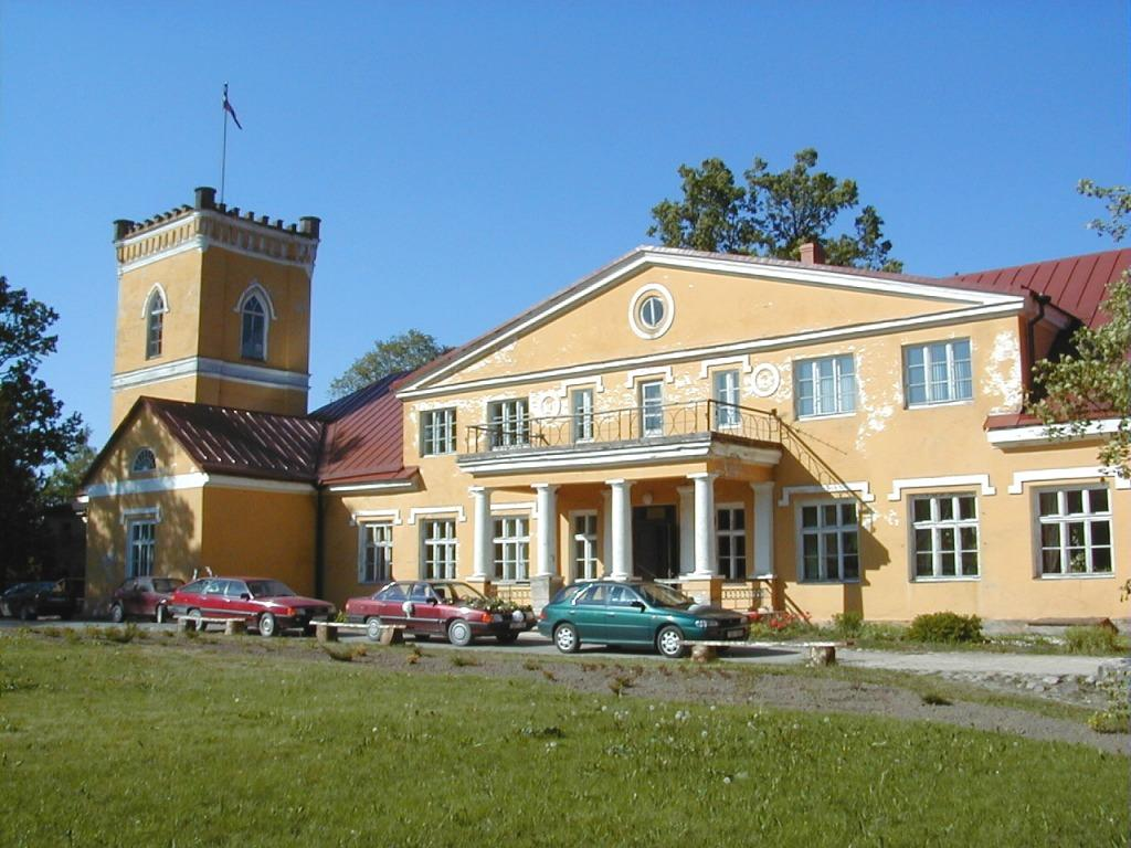 Dzērbene Manor